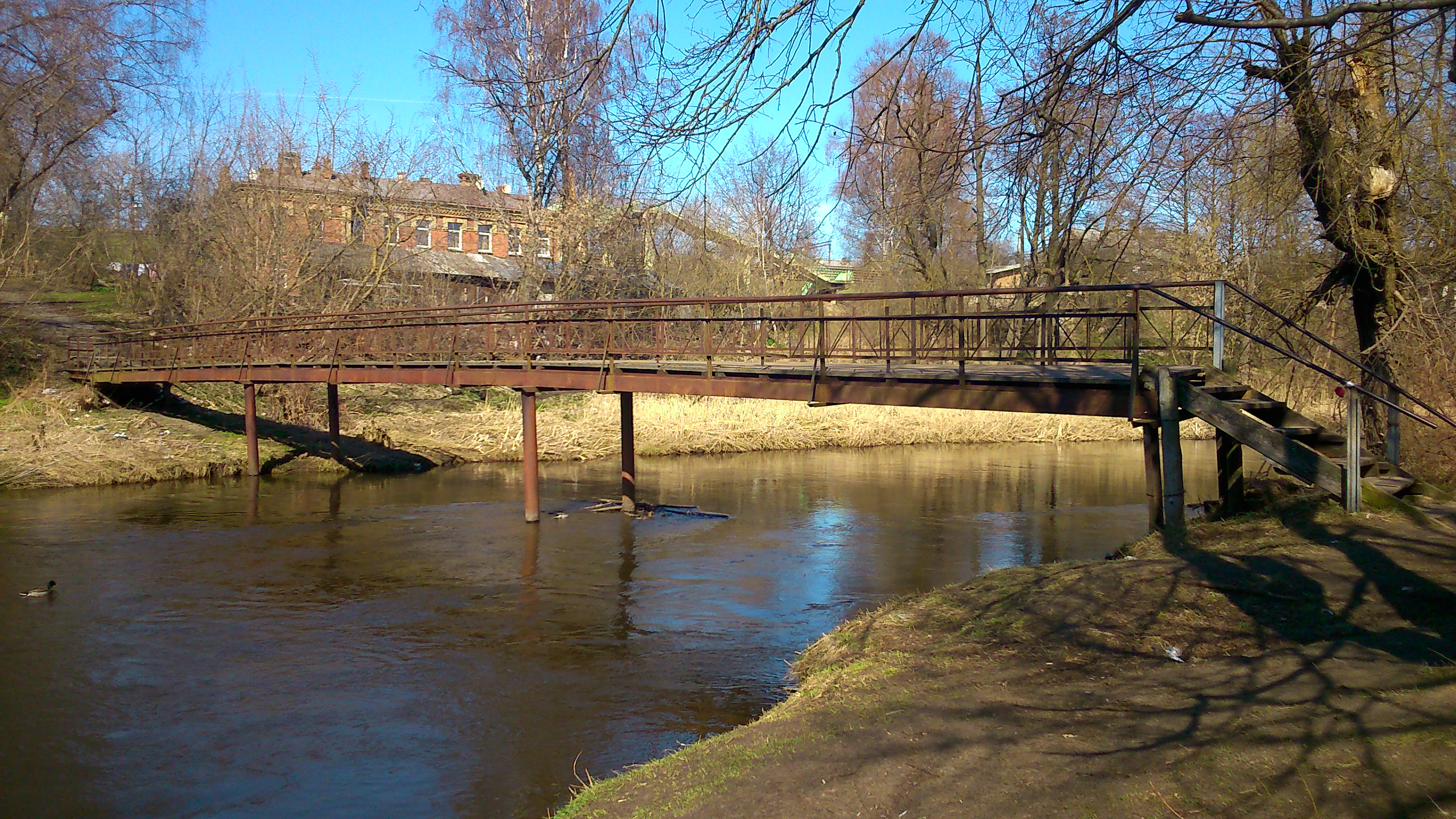 Naujoji Vilnia Park